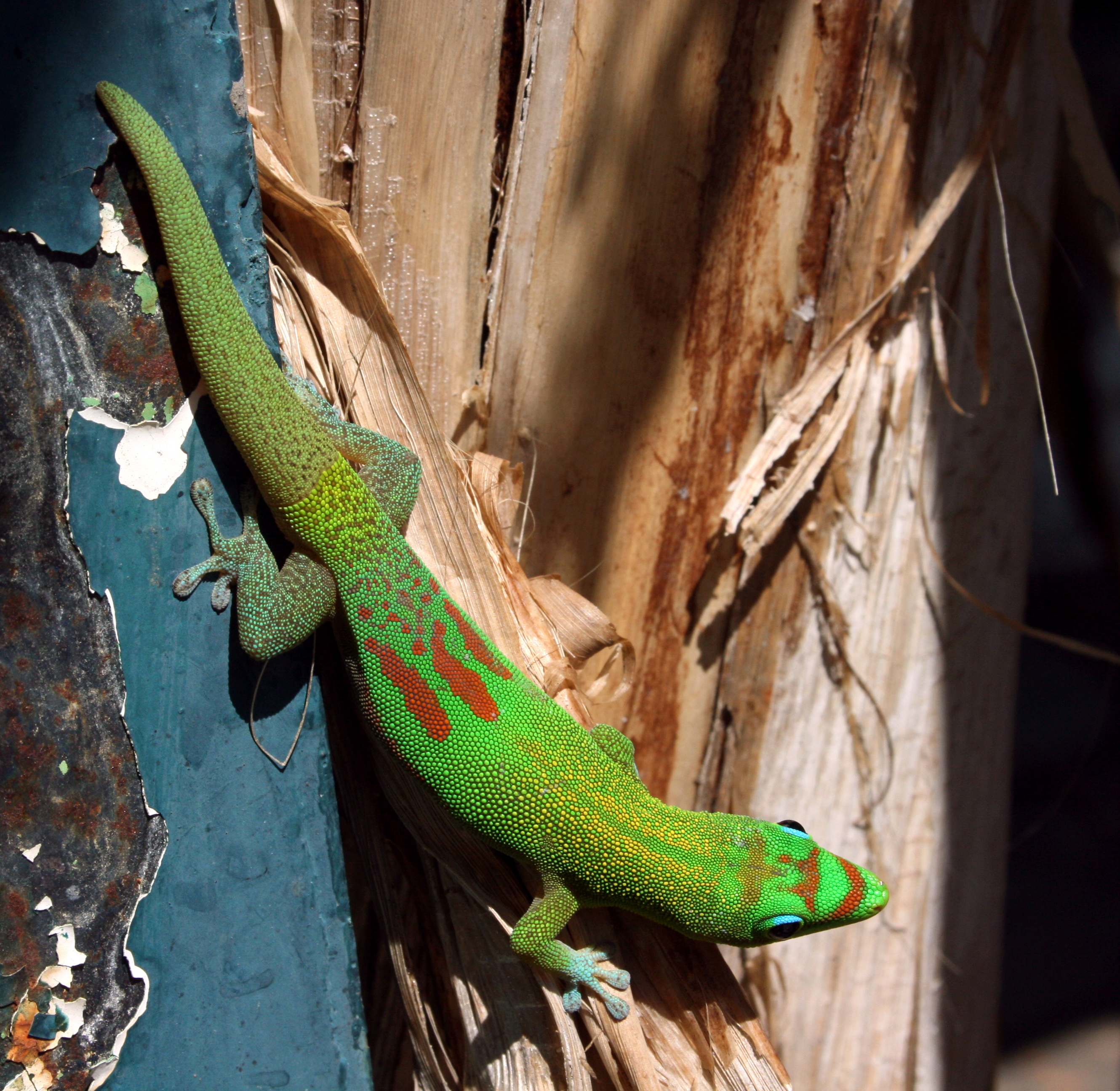 Gold dust day gecko on a banana plant in central Saint-Denis, Réunion.